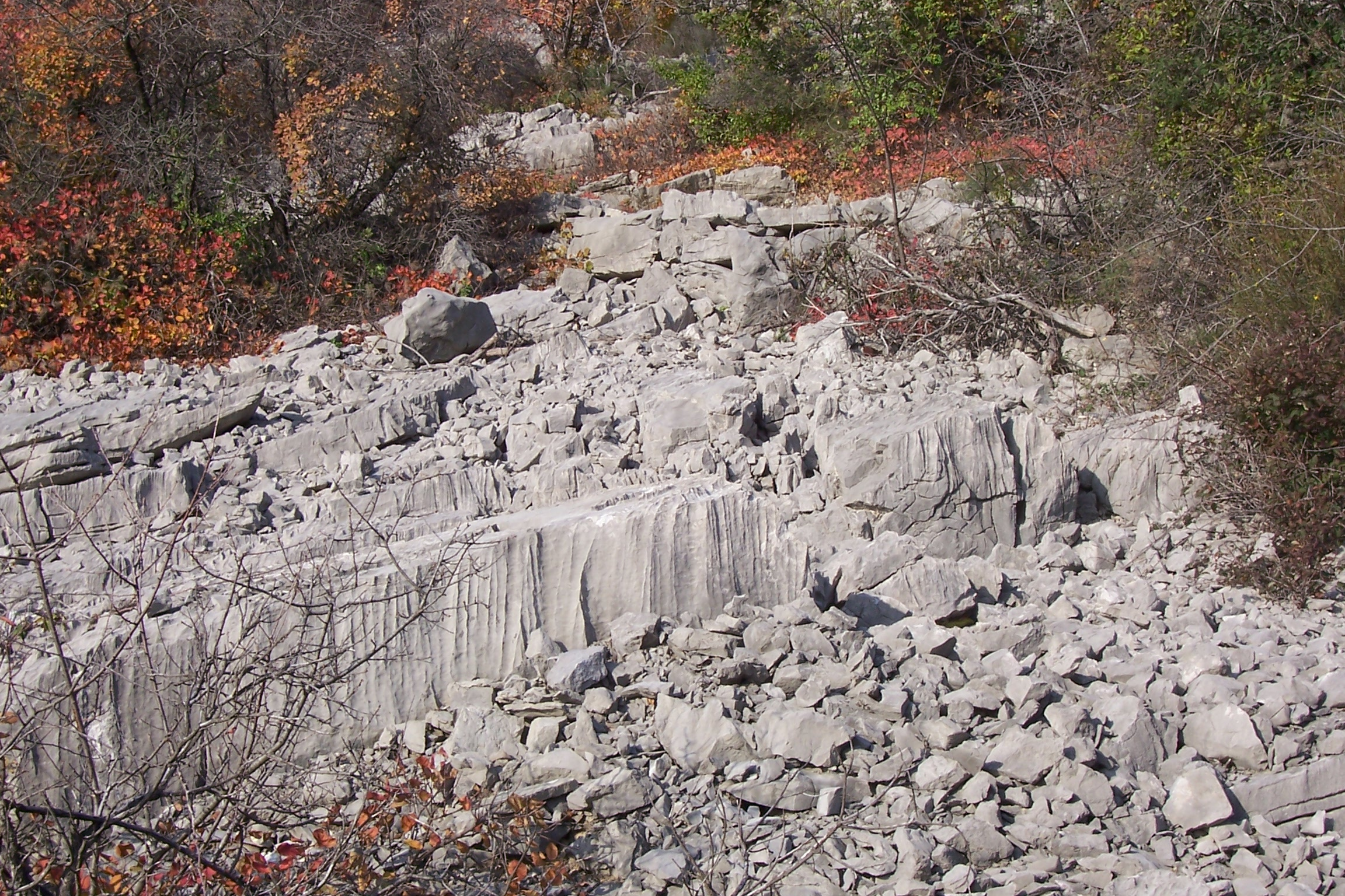 Emerging rocks into the Monfalcone Karst (Kras). In a limestone block, dissolution images are clearly visible as vertical grooves.